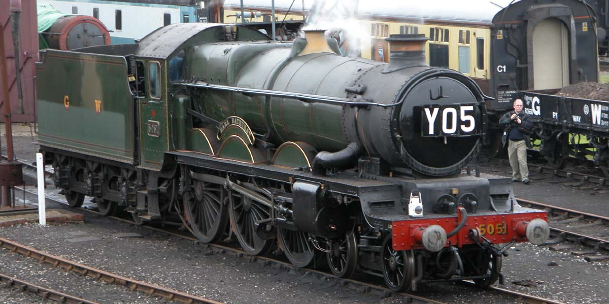 The GWR 4073 Class 5051 Earl Bathurst at Didcot railway center in January 2005, having a lunch break in between pulling the demo trains on a short line. Taken by William M. Connolley with a nikon 5700.